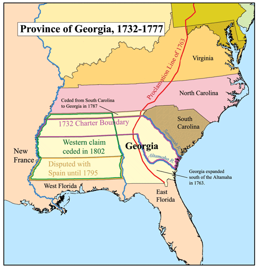 This is a map of the Province of Georgia that I made. Boundary disputes between colonies not involving Georgia are not shown.